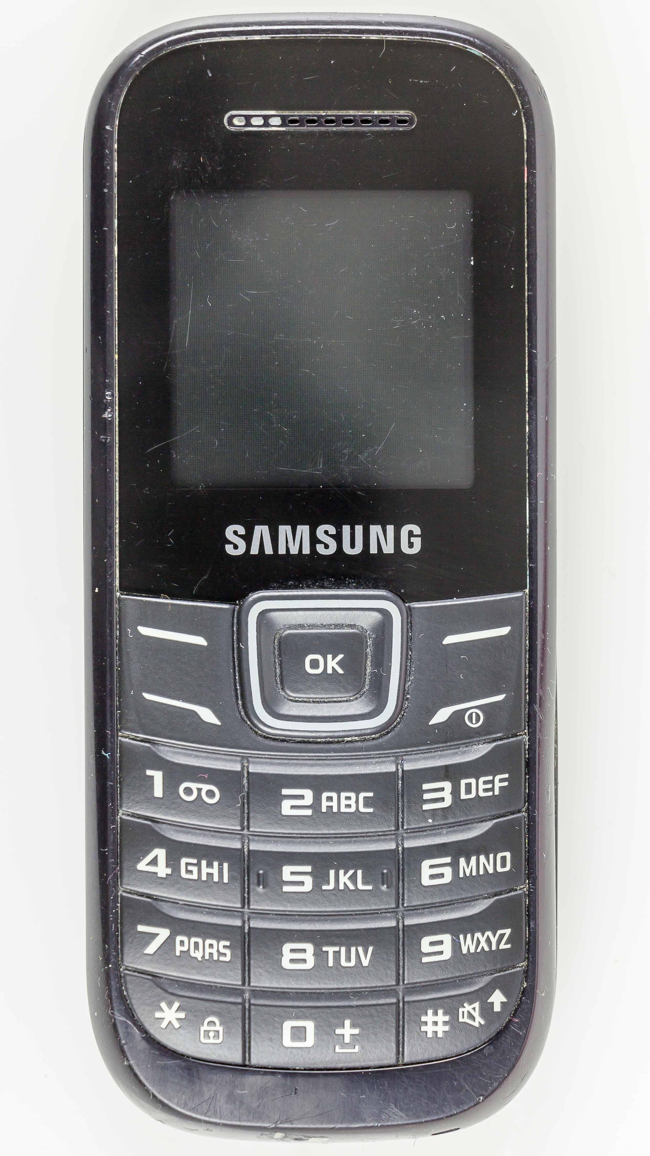 Samsung E1200i